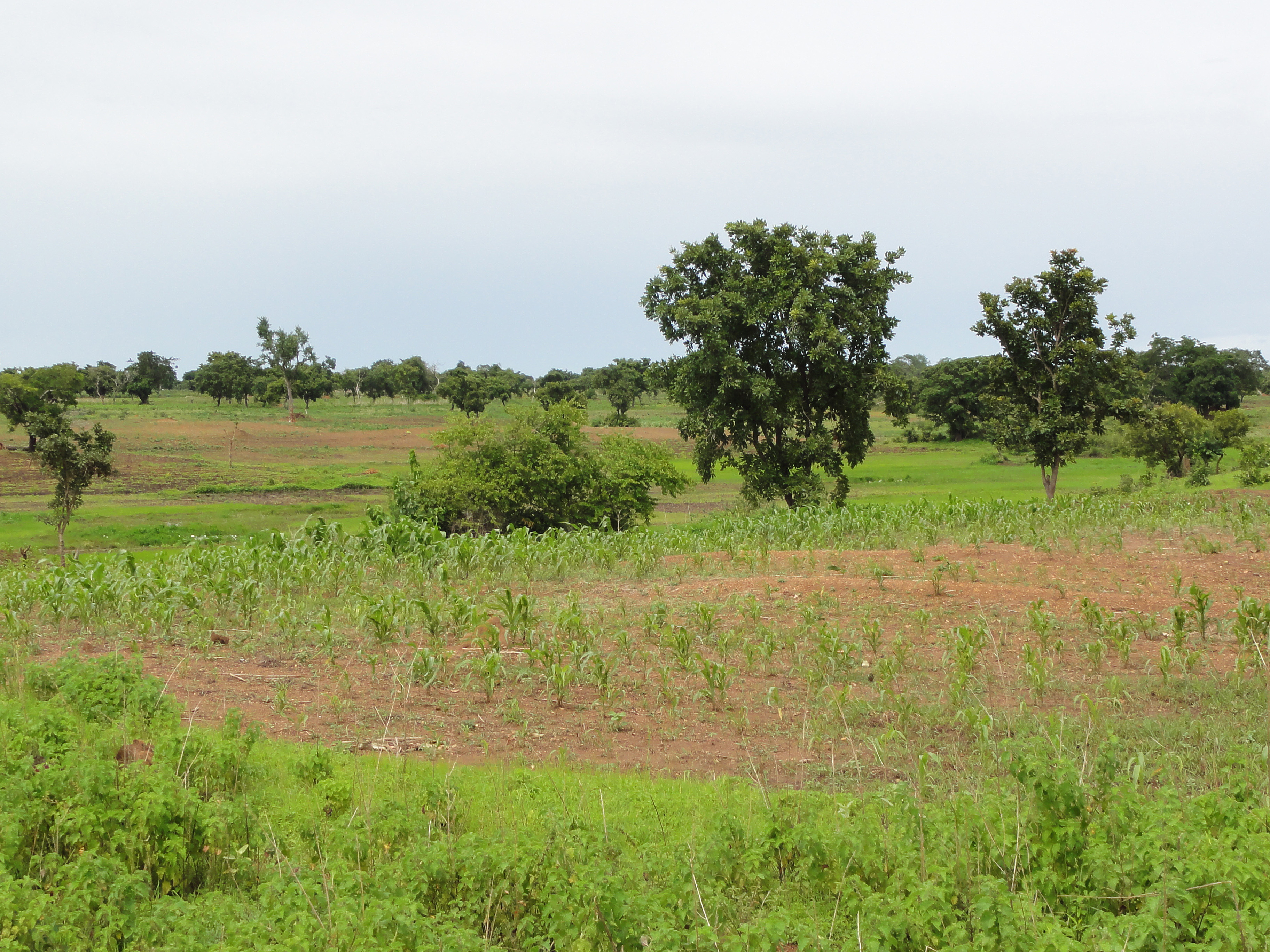 Rice cultivation in Benin